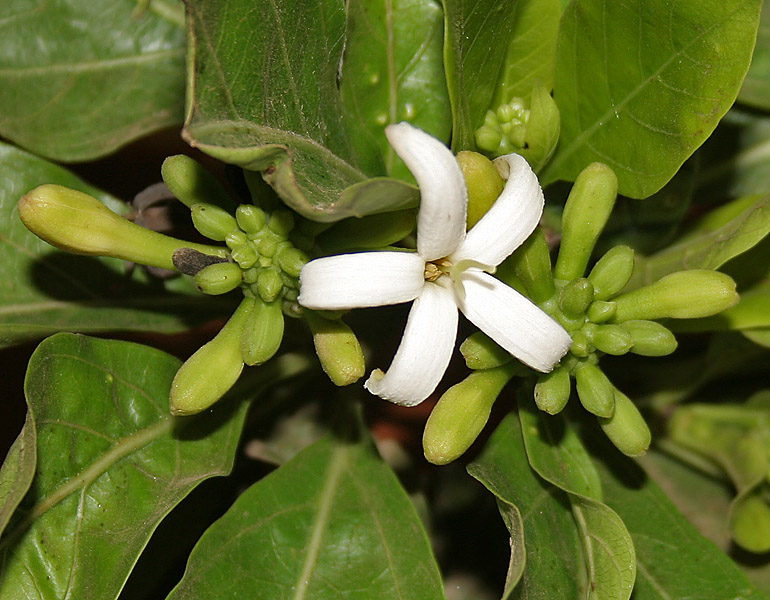 Morinda citrifolia - Great morinda, Indian mulberry, Beach mulberry, Tahitian Noni, Mengkudu, cheese fruit or Ach in Guntur, Andhra Pradesh, India.